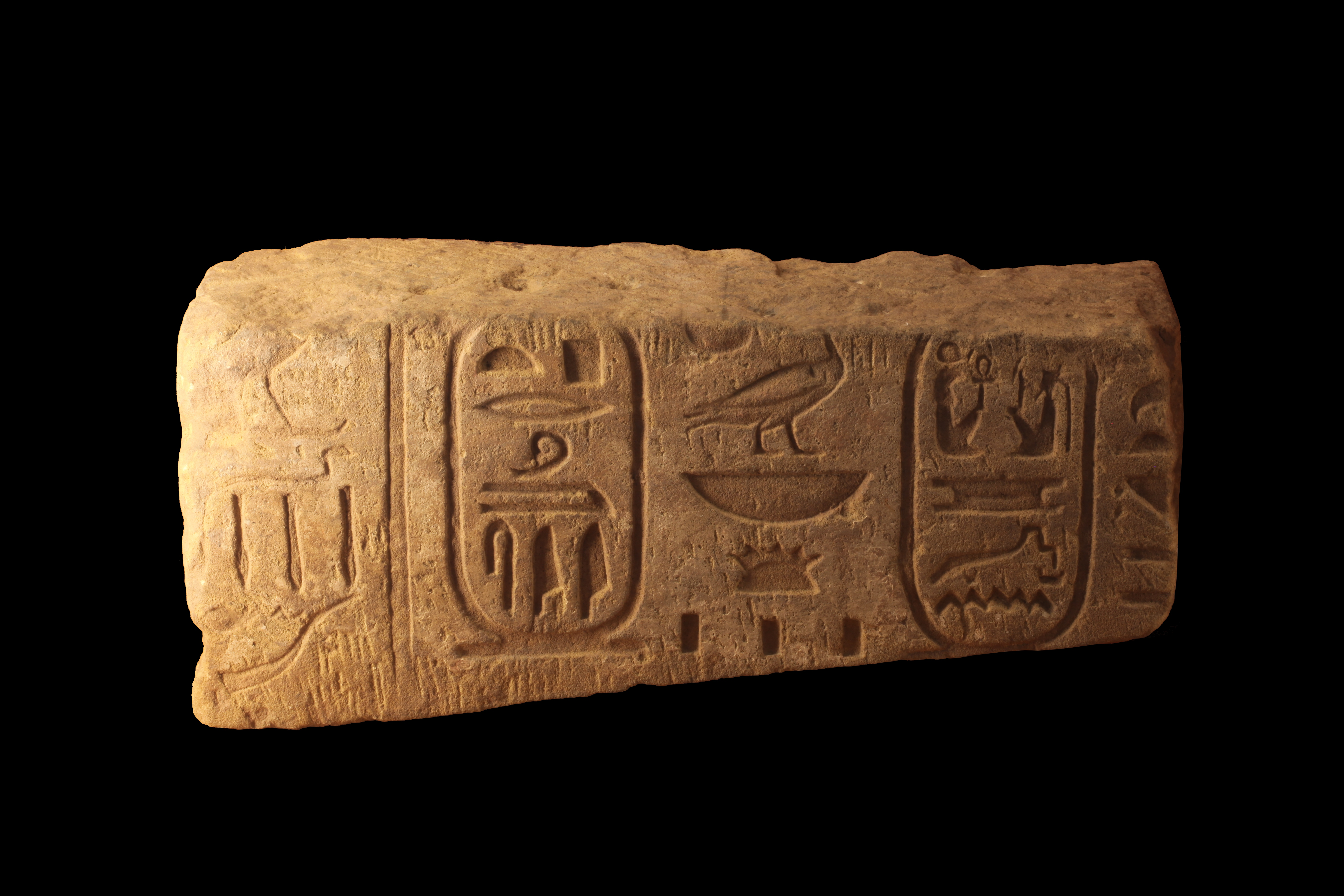 Protocole of Ptolemy I Soter